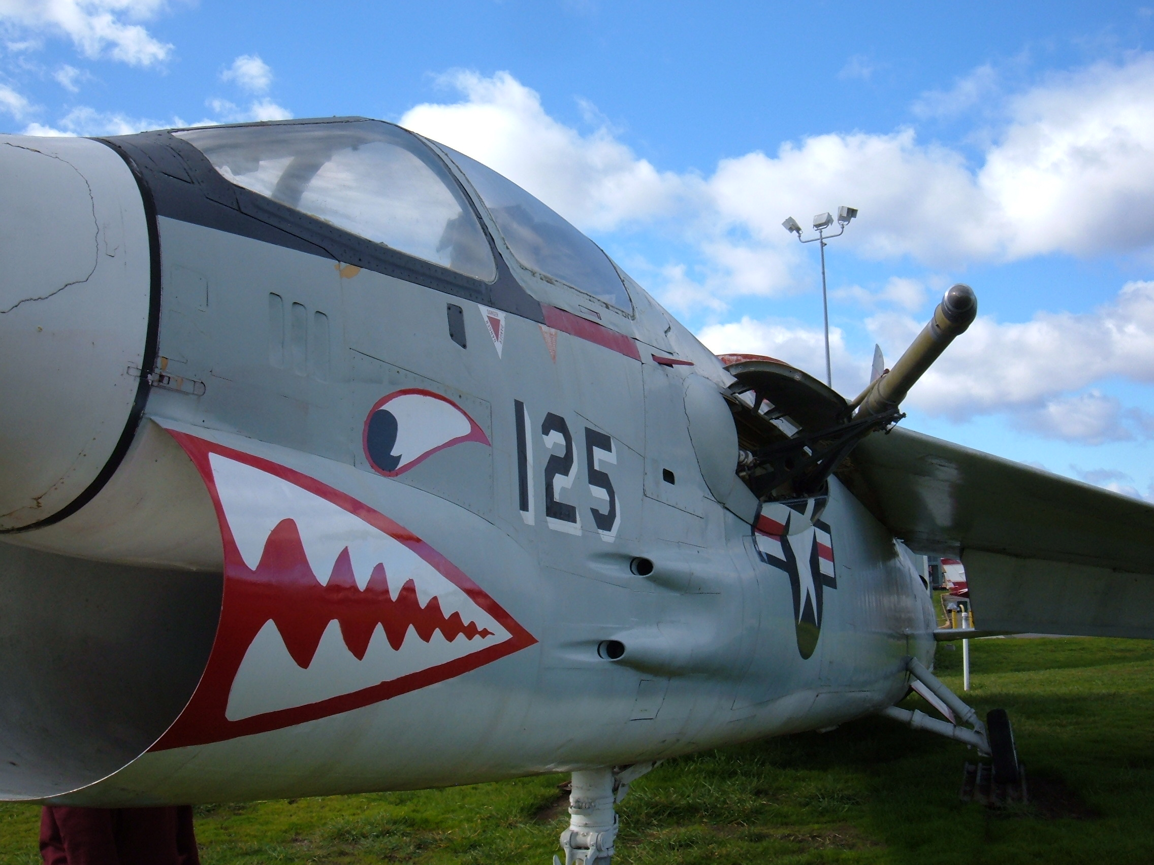 Refueling nozzle and pair of 20mm Colt Mk 12 cannons of an F-8 Crusader on display at the Pacific Coast Air Museum in Santa Rosa, California.